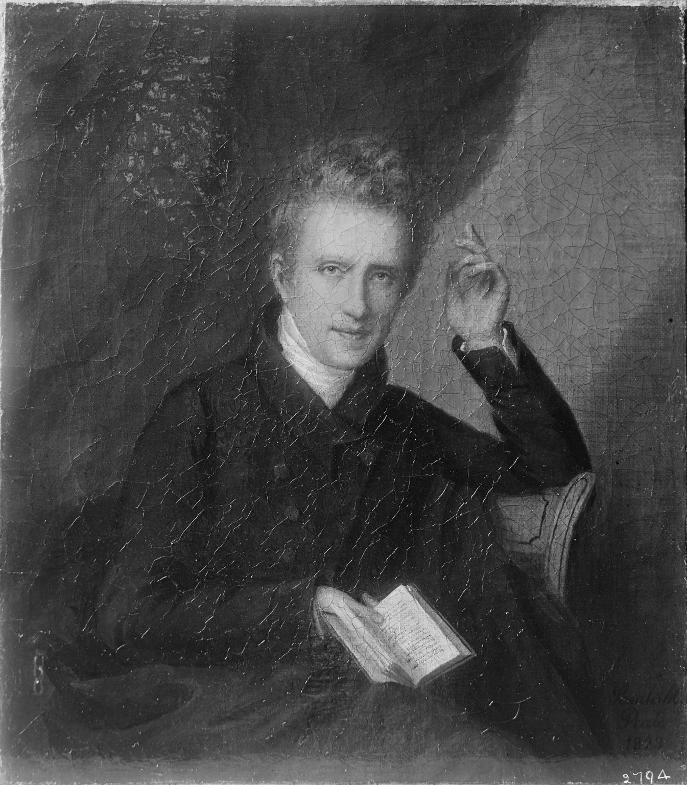 Portrait painted in Baltimore, Maryland, USA in 1823 by Sarah Miriam Peale (1800-1885) of eccentric writer, critic, and activist John Neal (1792-1876). Oil on canvas. From the New York Art Resource Consortium